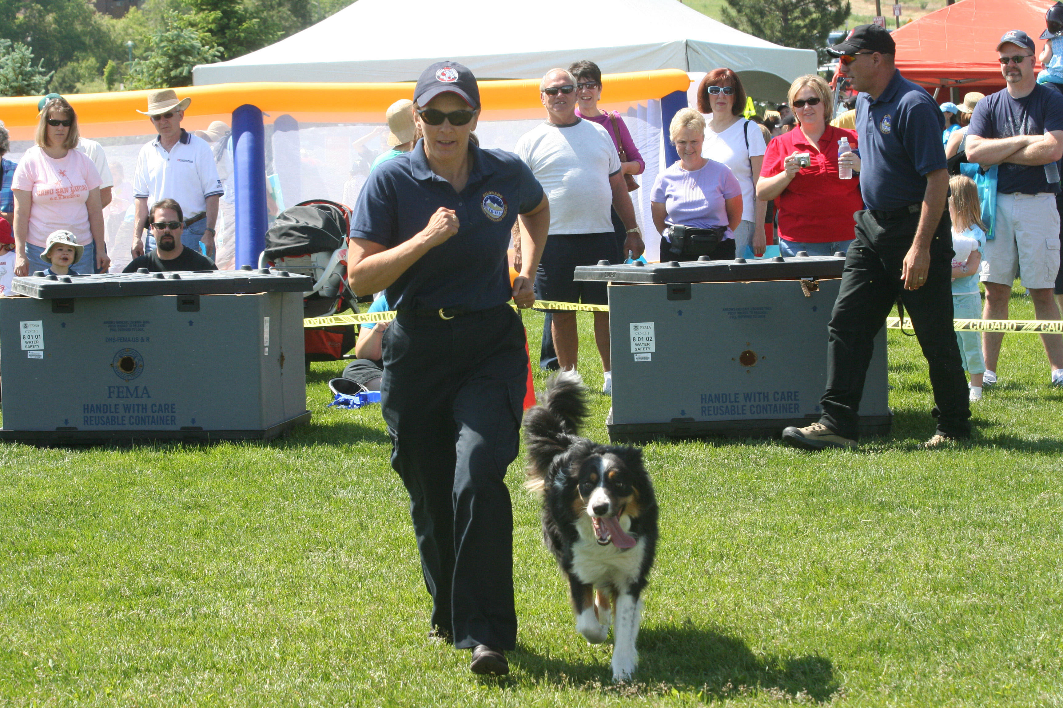 Denver, CO, June 12, 2009 -- Roxanne Dunn and her dog Chili demonstrate search-and-rescue maneuvers during the West Metro Fire Rescue family Fire Muster held over the weekend in Denver. More than 8,000 kids and adults came out for the festivities which included safety and preparedness demonstrations and hands-on events by a variety of local, state, federal, private sector and volunteer agencies. Roxanne and Chili are members of the Colorado Search and Rescue TF-1. FEMA/Barb Sturner